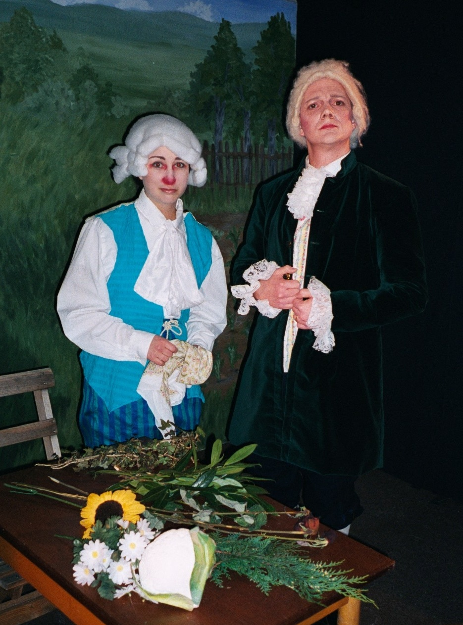 Scene from the Lundian "spex" Linné performed by Helsingkronaspexet in 2001. The characters are Erik Gustaf Lidbeck and Carl Linnaeus.